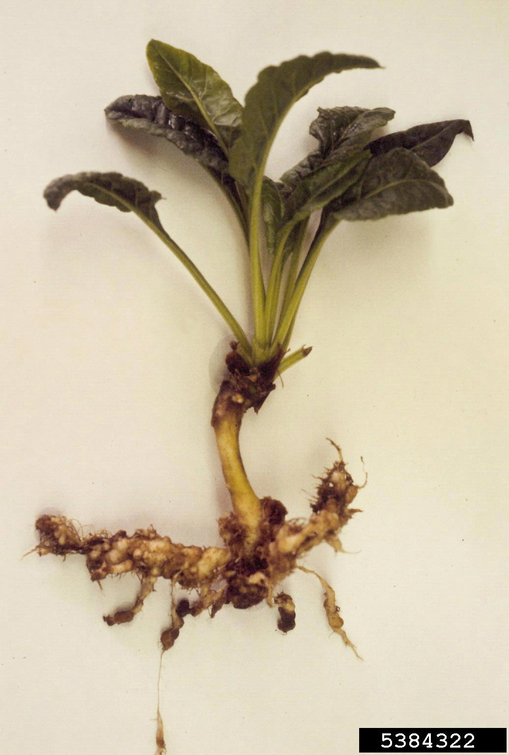 Nacobbus aberrans at Beta spp.